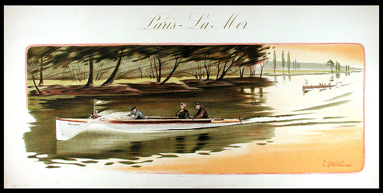 "Paris, La Mer, Paris: [Mabileau & Co.], 1903. Hand-coloured pochoir print. Image size (including text): 14 3/4 x 31 5/8 inches. Sheet size: 17 5/8 x 35 1/8 inches.In the first International Harmsworth Trophy Competition of 1903, the English Napier motorboat beat the French motorboat, driven by M. Charley and powered by a Mercedes motor, in a race from Paris to Trouville."